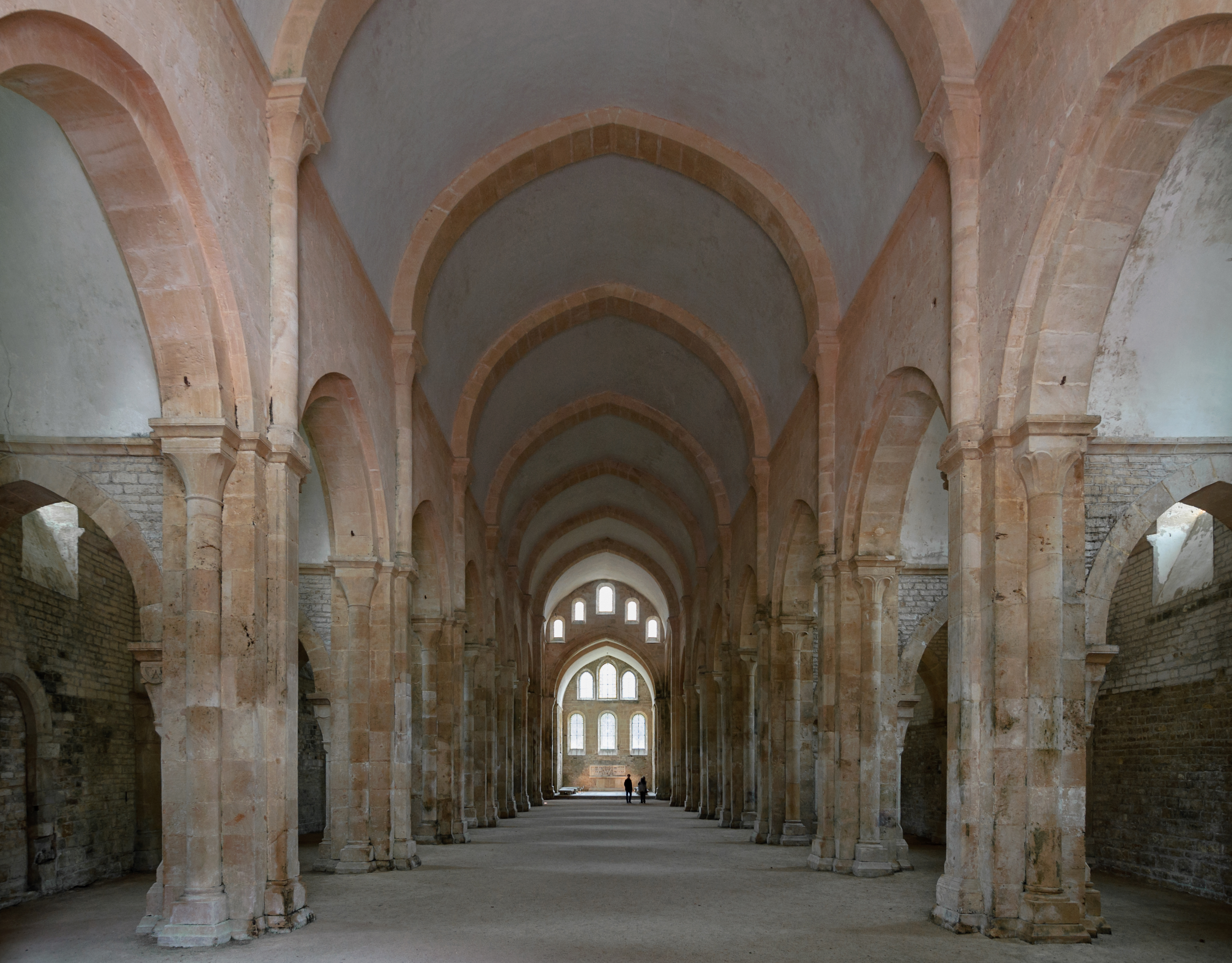 Abbey of Fontenay, Marmagne, Côte-d'Or department, Burgundy, France: inside view of the church.